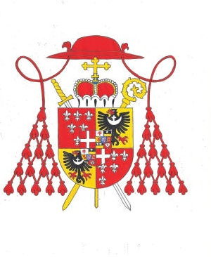 COAT ARM HESSEN FRIEDRICH